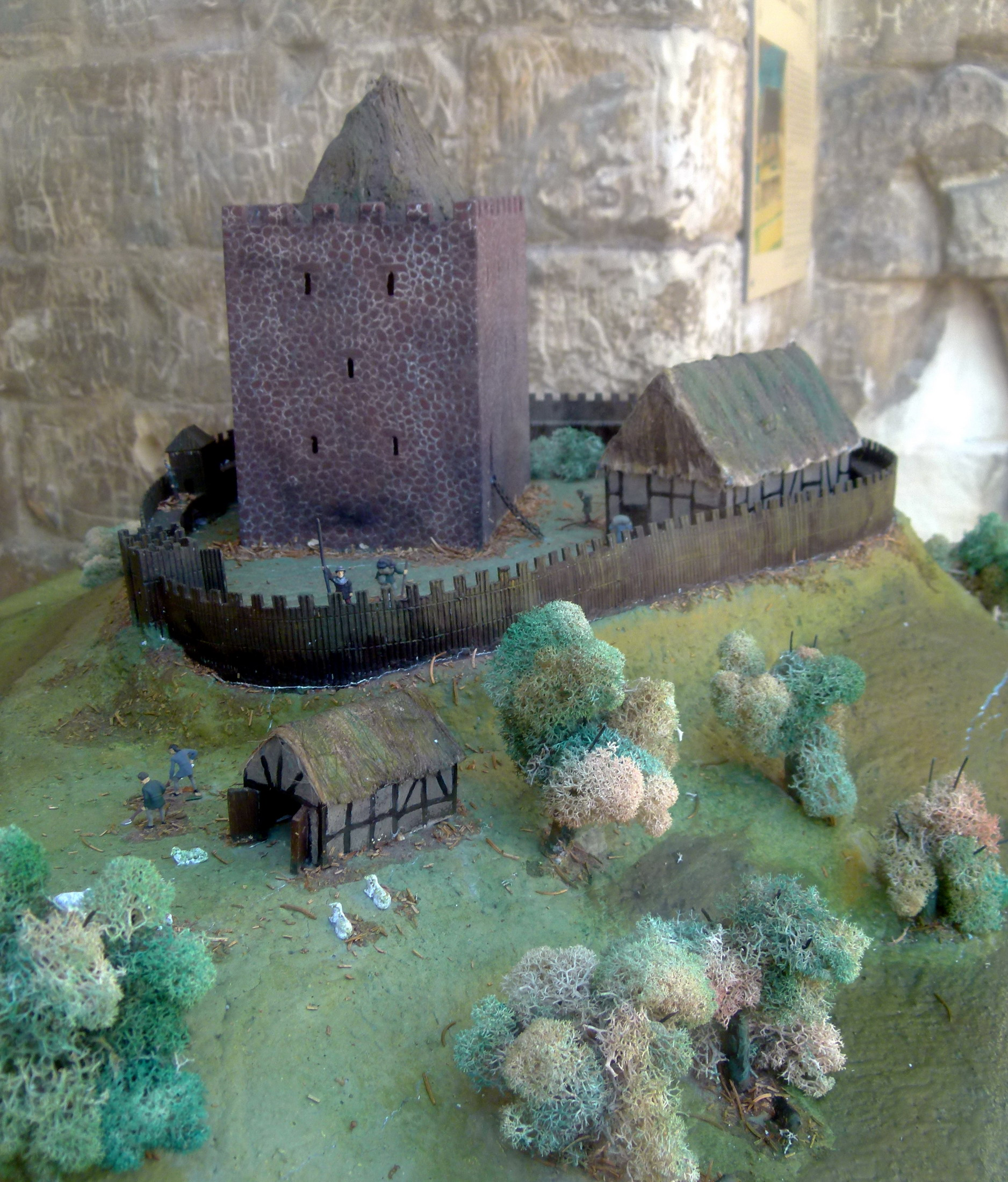 Valkenburg, Limburg, the Netherlands. Model of Valkenburg Castle at an earlier stage (stage 1, ca 1115), exhibited in the ruined knights' hall of the castle.